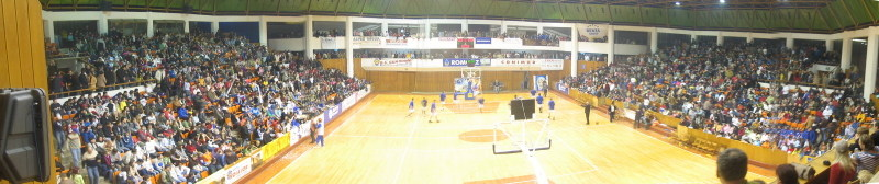 Home game.